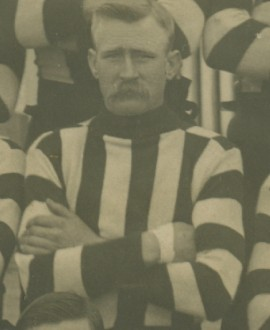 Photograph of Dick Vernon in 1910